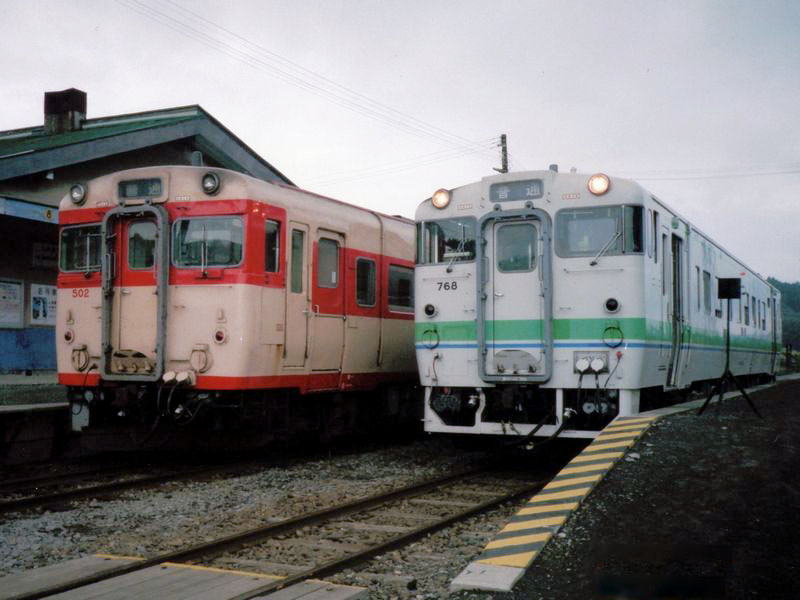 Train at Shumarinai Sta.